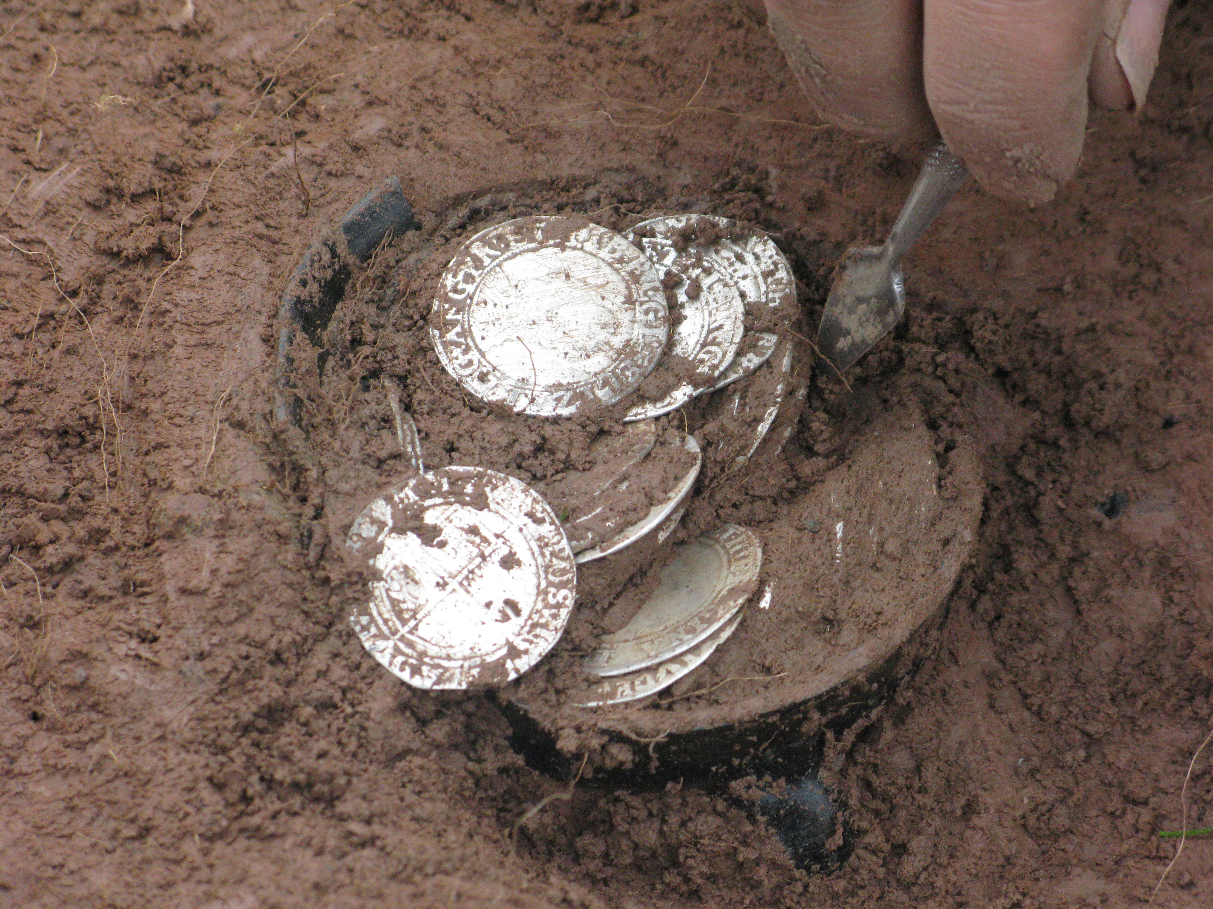 Excavation of a 17th Century Coin Hoard from Bitterley, South Shropshire